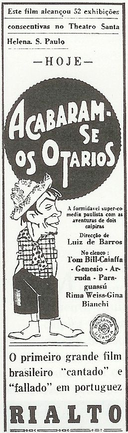 Low-resolution image of advertisement for the film Acabaram-se os otÃ¡rios (The End of the Simpletons; 1929) Original rights holder: Syncrocinex